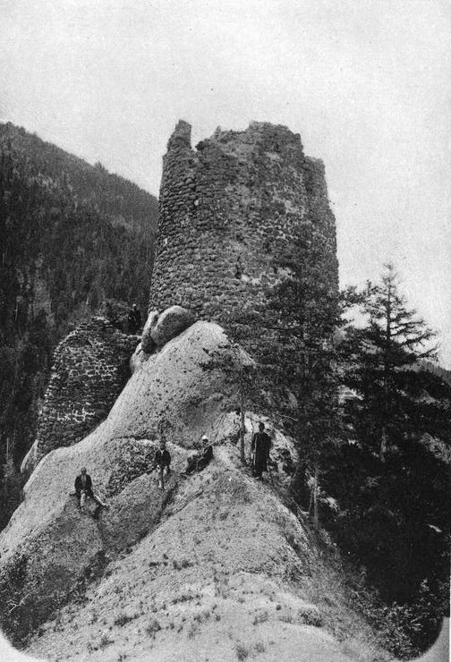 A tower overlooking the Shoreti monastery in Georgia. Photographed in 1902 (Taqaishvili, 1909).